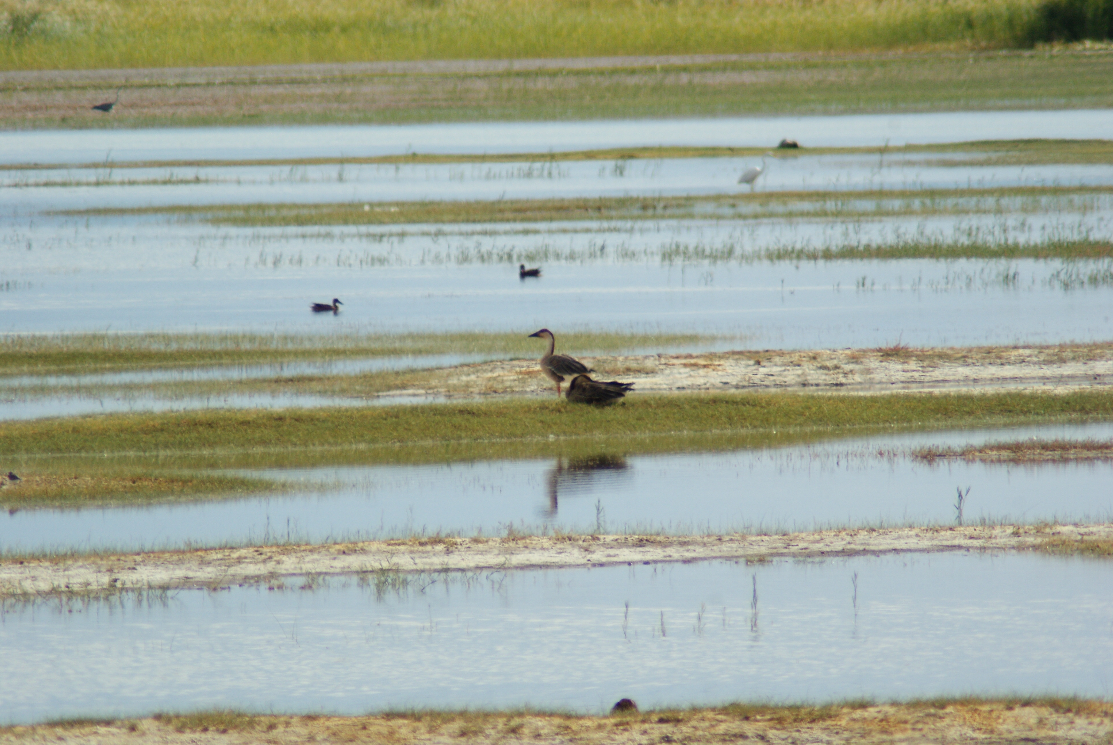 Swan Goose(Anser cygnoides) Монгол: Хошуу галуу.Монгол Улс.Ховд.Хар-Ус нуур